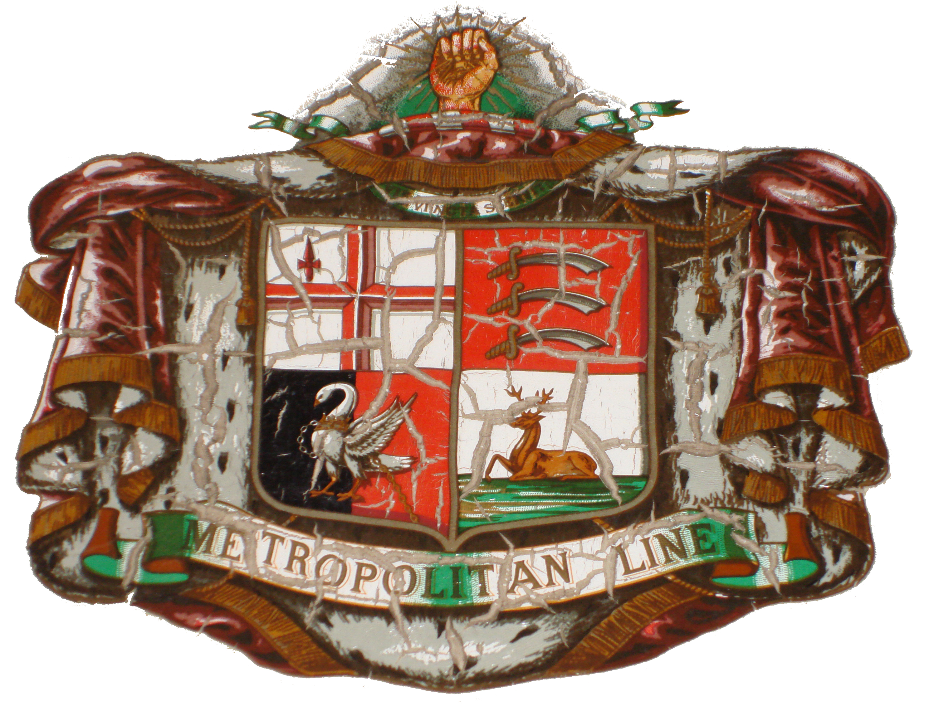 Metropolitan Line Heraldry